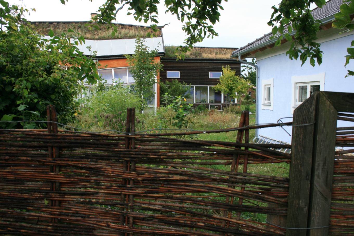 The village society of "Dyssekilde" at Torup, northern Sealand, Denmark